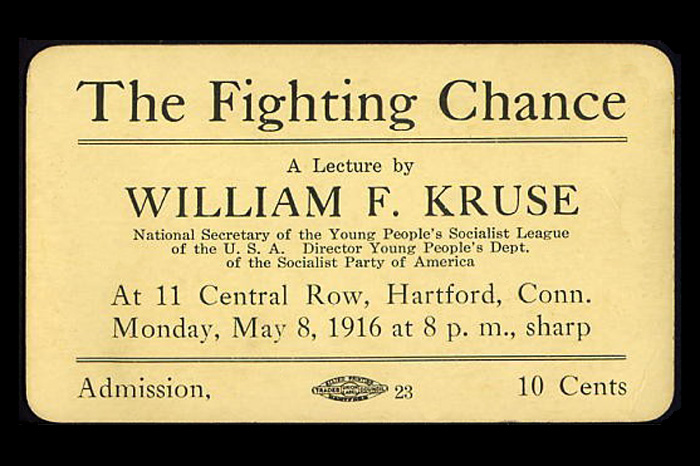 Ticket for a public lecture by William F. Kruse, head of the Young People's Socialist League. No copyright on publication, produced prior to 1923, public domain. Digital image from the Tim Davenport collection.